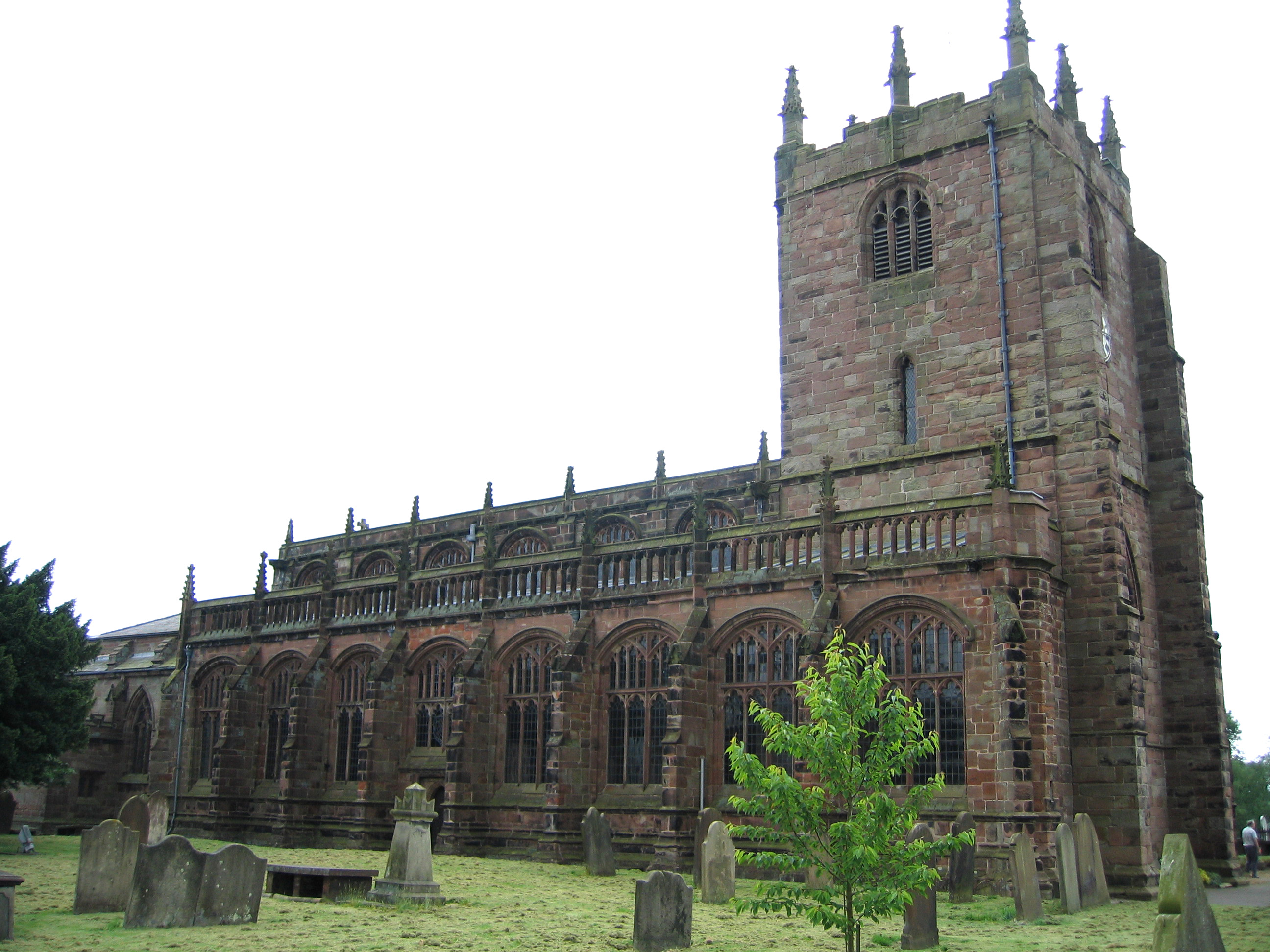 Photograph of the exterior